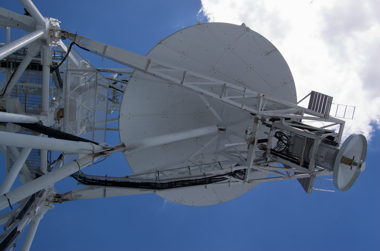 GBT prime focus receiver in front of the secondary reflector